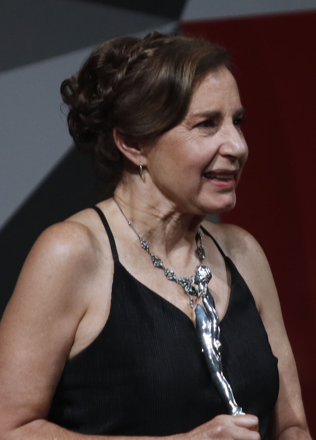 BEST ACTRESS, Verónica Langer, for La caridad. Photography: Milton Martínez / Secretary of Culture CDMX.